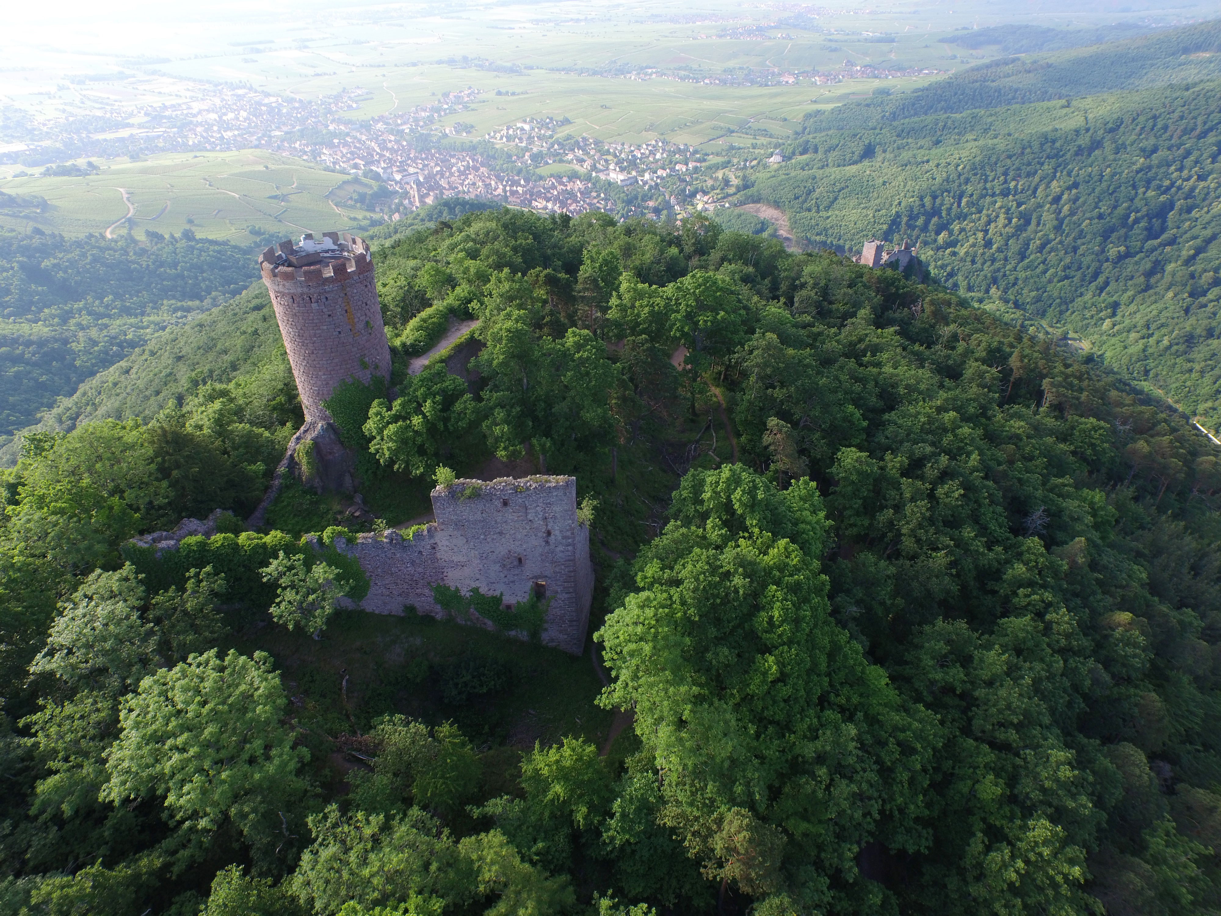 Château Haut-Ribeaupierre with Chateau Saint-Ulrich and the city of Ribeauvillé, France in the background.